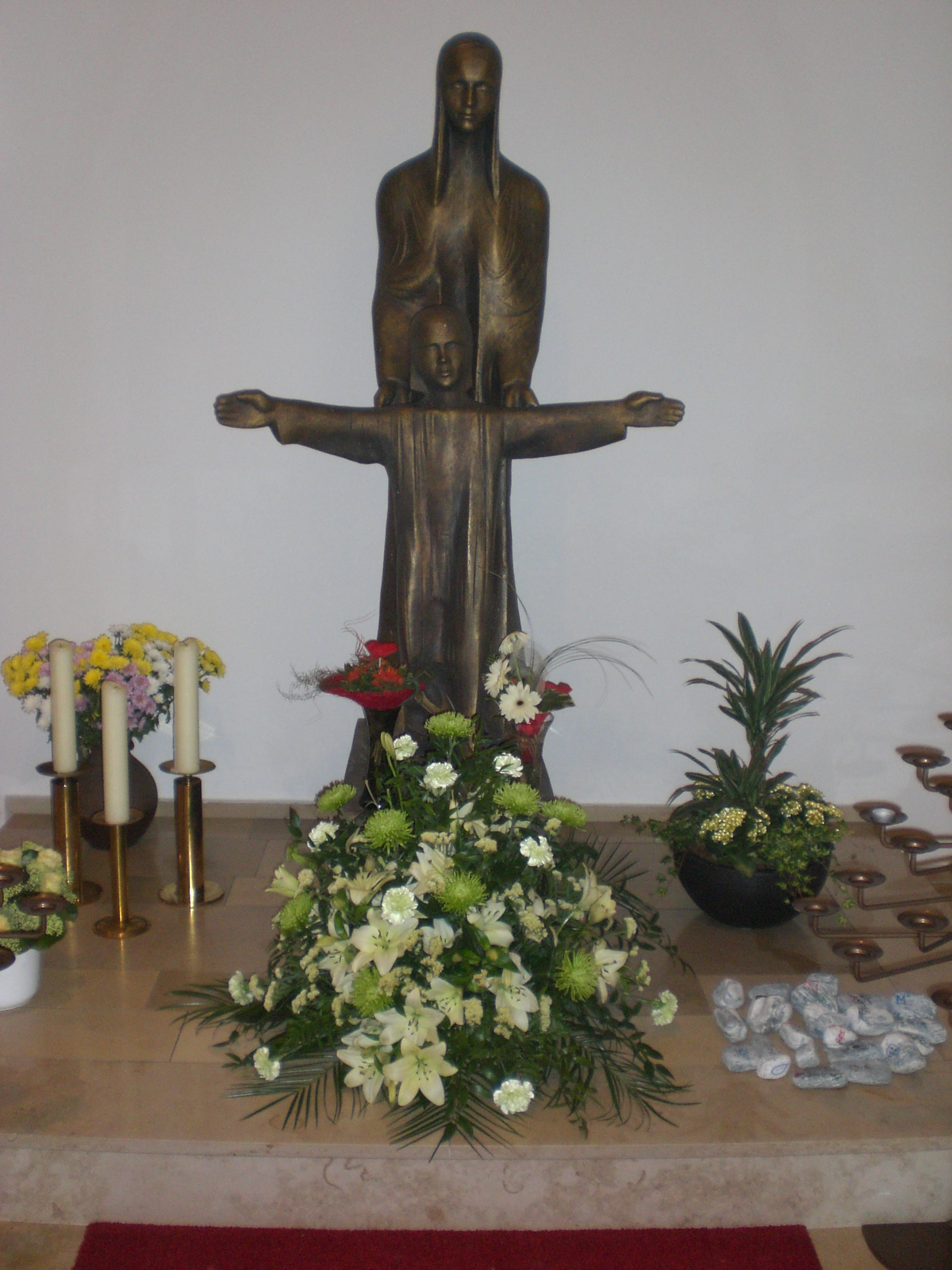 Augustinus Muttergottes